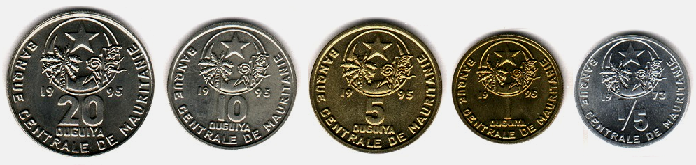 Coins